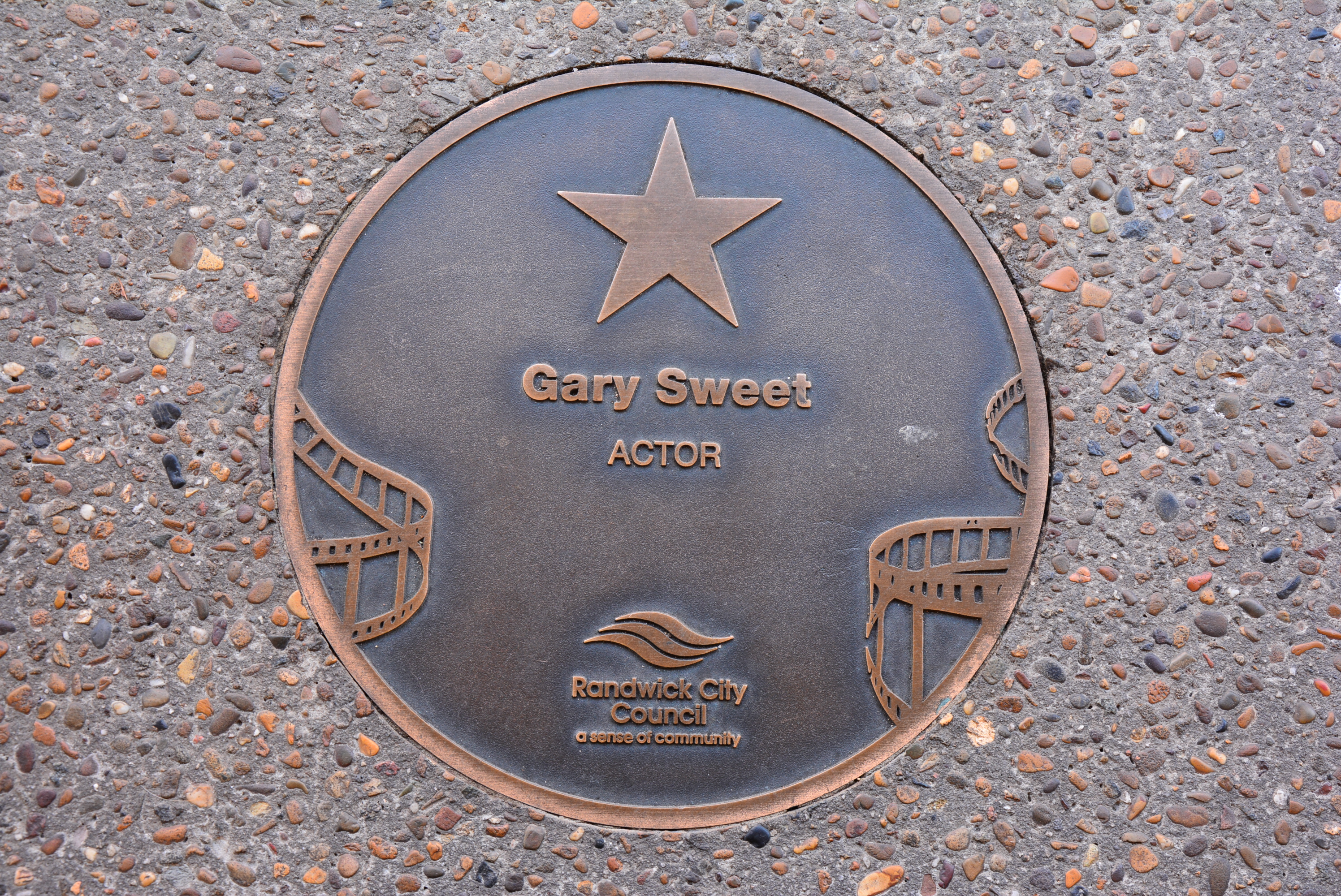 Gary Sweet's star on the Australian Film Walk of Fame, Randwick, Sydney